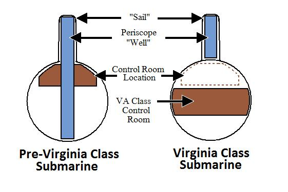 Comparison of design between a Virgina class submarine using a photonics mast versus other submarines that use a periscope.